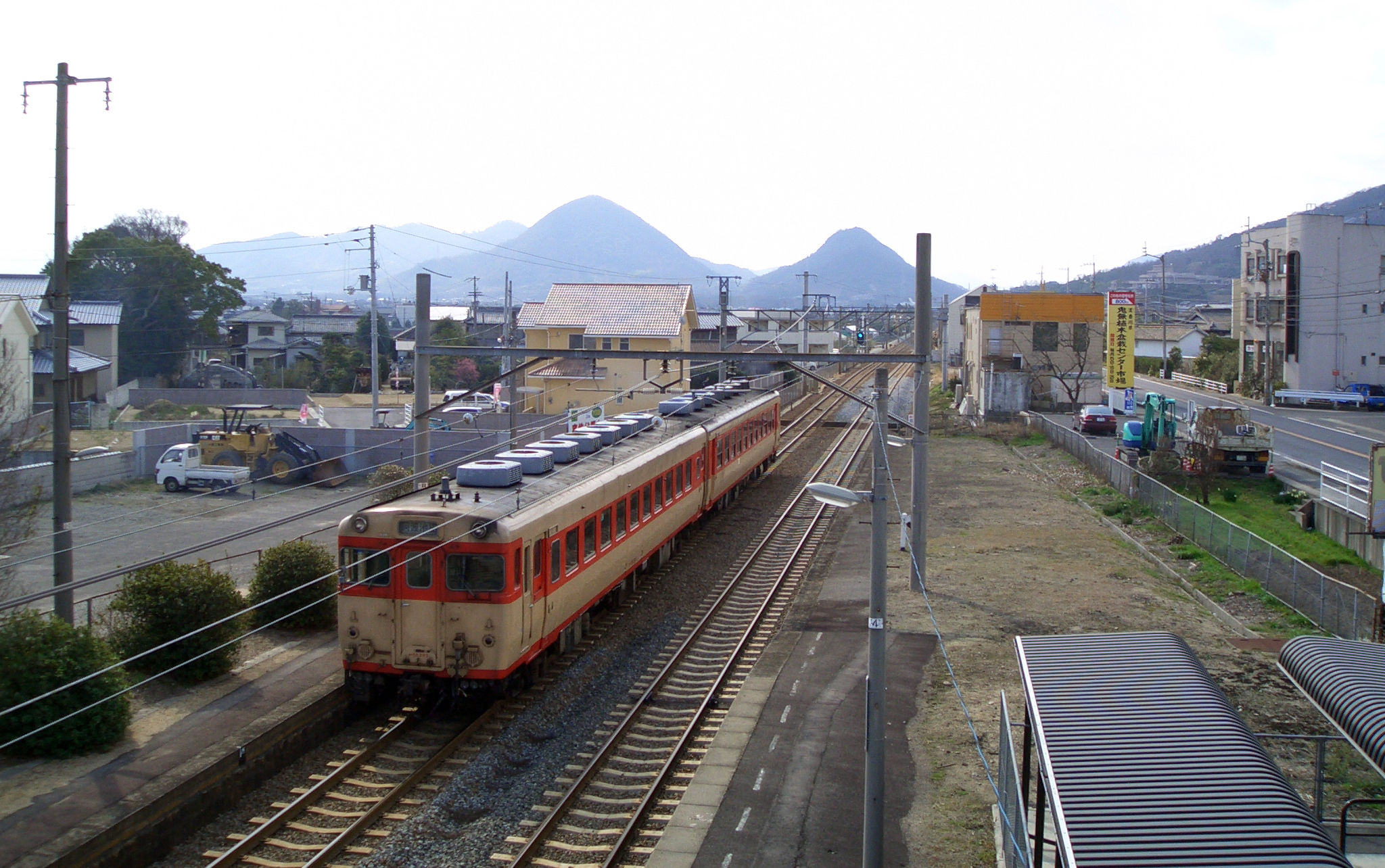 Kinashi Station in Takamatsu, Kagawa pref., Japan.